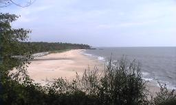 ThottadaBeach in Kannur- Kerala